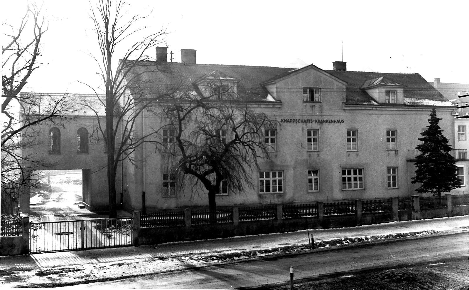 picture postcard: miners hospital im Peissenberg